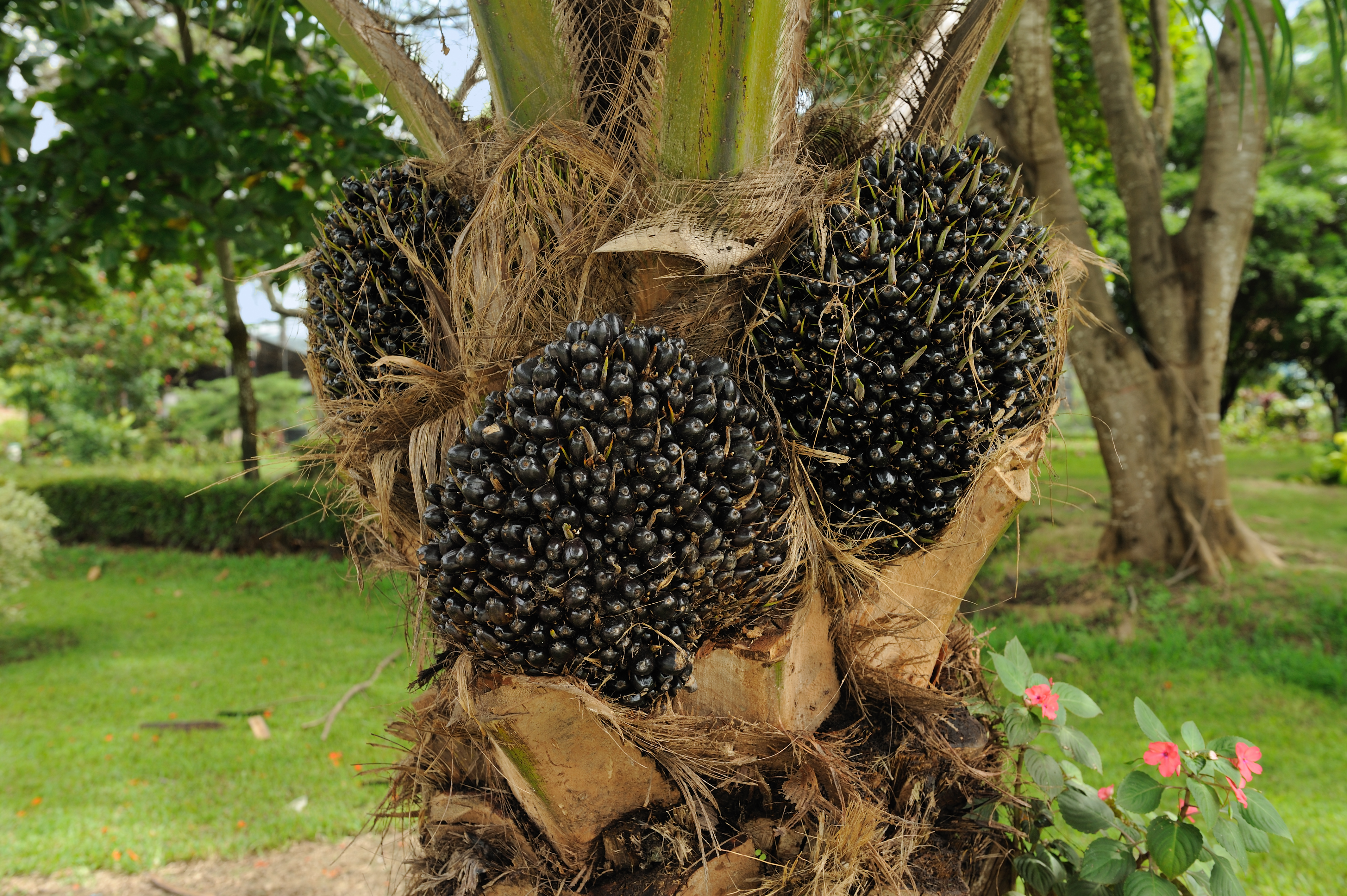 Fruit of Elaeis guineensis (oil palm) produced by a young palm at the botanical garden of Portoviejo, Ecuador.